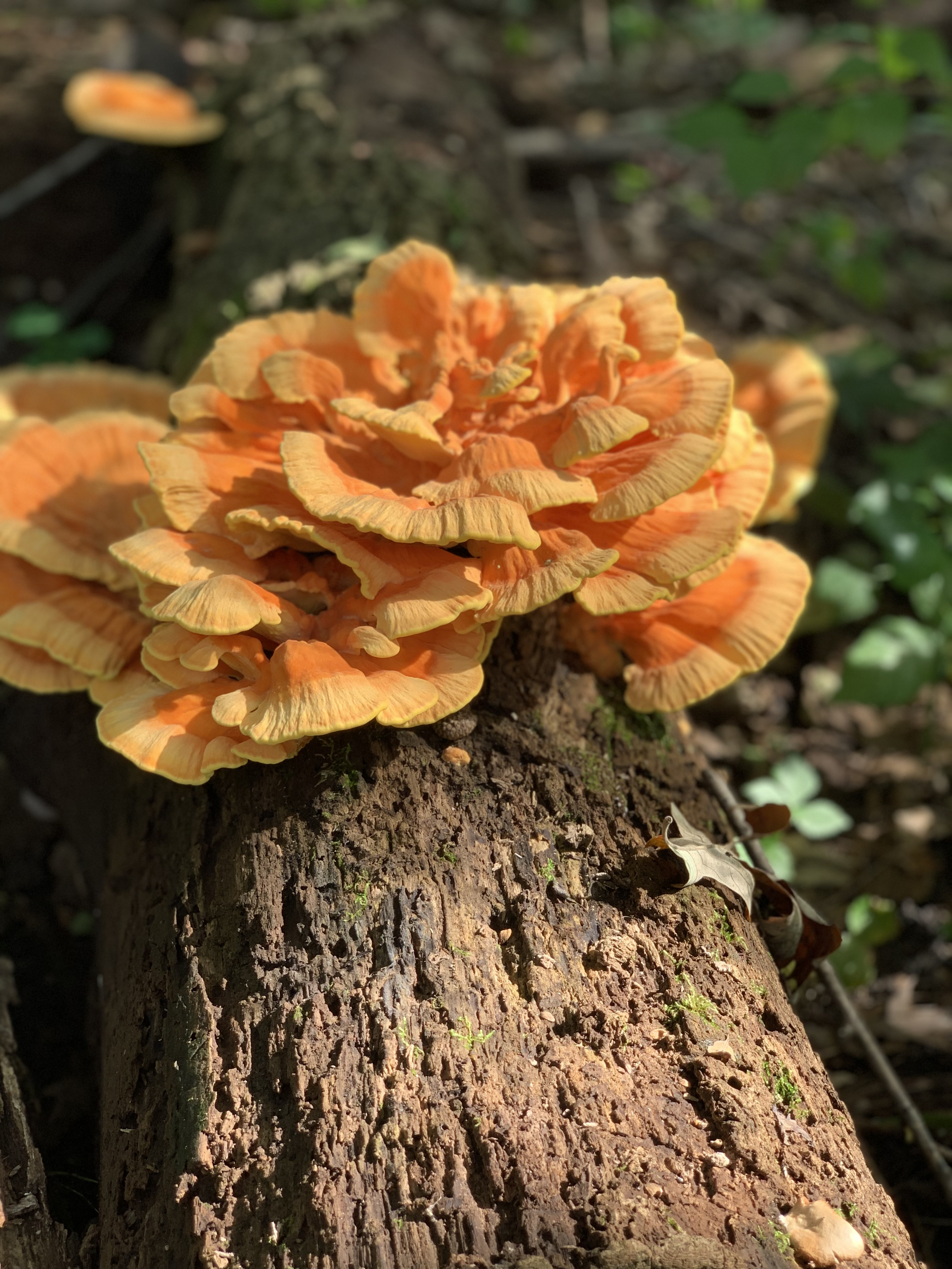 A close up shot of the Chicken of the Woods captured on the Trinity Trail on the campus of Trinity Christian College in Palos Heights, Illinois.